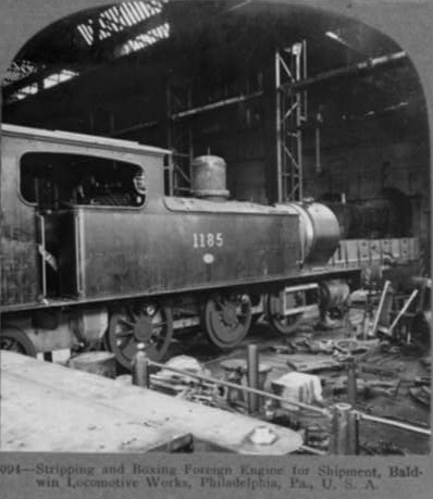 Stripping and boxing foreign engine for shipment, Baldwin Locomotive Works, Philadelphia, Pa., U.S.A ボールドウィンの工場で製作中の鉄道院2500形蒸気機関車